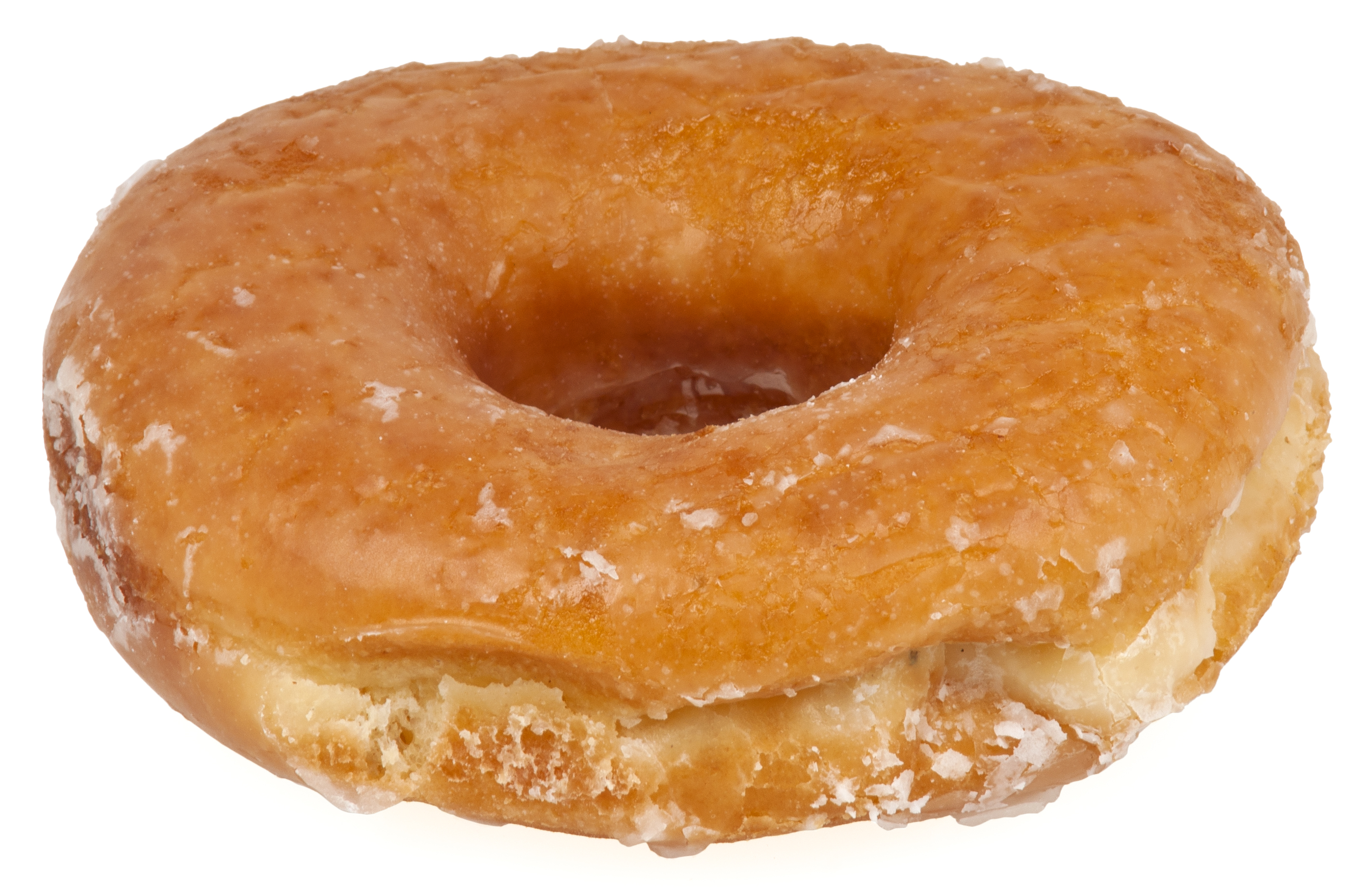 A plain glazed donut. This was bought at a Dunkin' Donuts in Brooklyn.